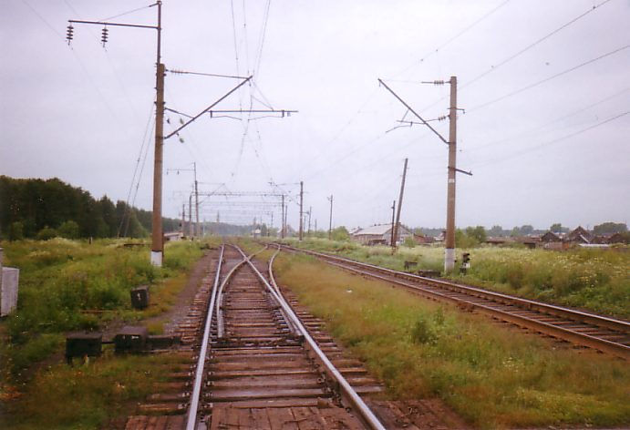 East throat of Kozhil railway station (Glazovsky District of Udmurtia) Удмурт: Кожиль станцилэн ӵукпал пумыз (Удмуртиысь Глаз ёрос)